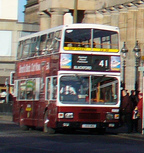 A Lothian Buses bus, a Leyland Olympian double-decker with Alexander RH bodywork, wearing the old version of the Madder and White livery. Pictured heading south up The Mound past the Royal Scottish Academy on route 41 to Blackford, Edinburgh.